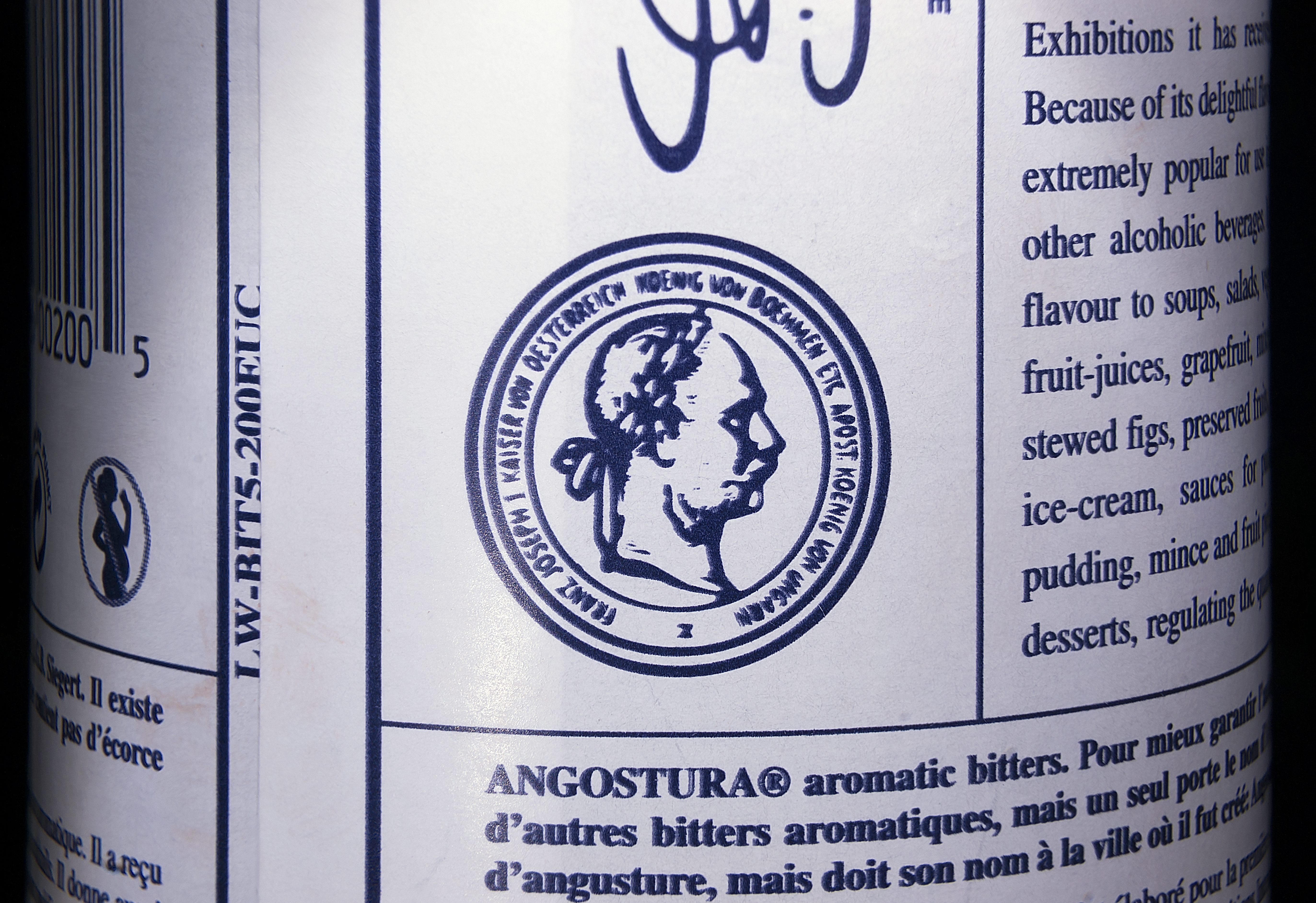 200 ml Bottle Angostura aromatic bitters, label and a portrait of Emperor Franz Joseph I of Austria-Hungary.